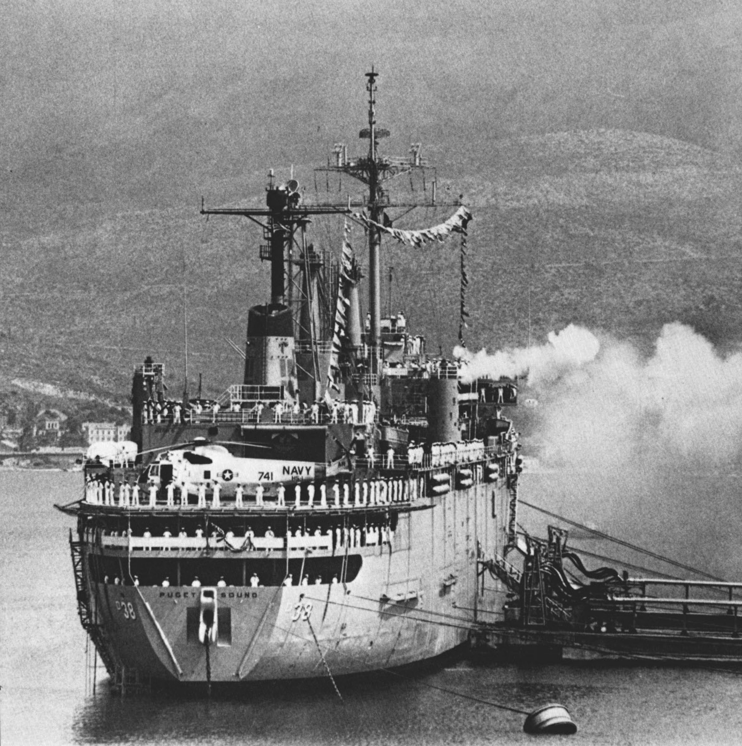 The U.S. Navy Sixth Fleet flagship, destroyer tender USS Puget Sound (AD-38), fires a salute during change of command ceremonies at Gaeta, Italy, on 5 June 1981. Vice Admiral William N. Small, who was promoted to the fourstar rank of admiral, was relieved by Vice Admiral William H. Rowden. Adm. Small became the Vice Chief of Naval Operations.